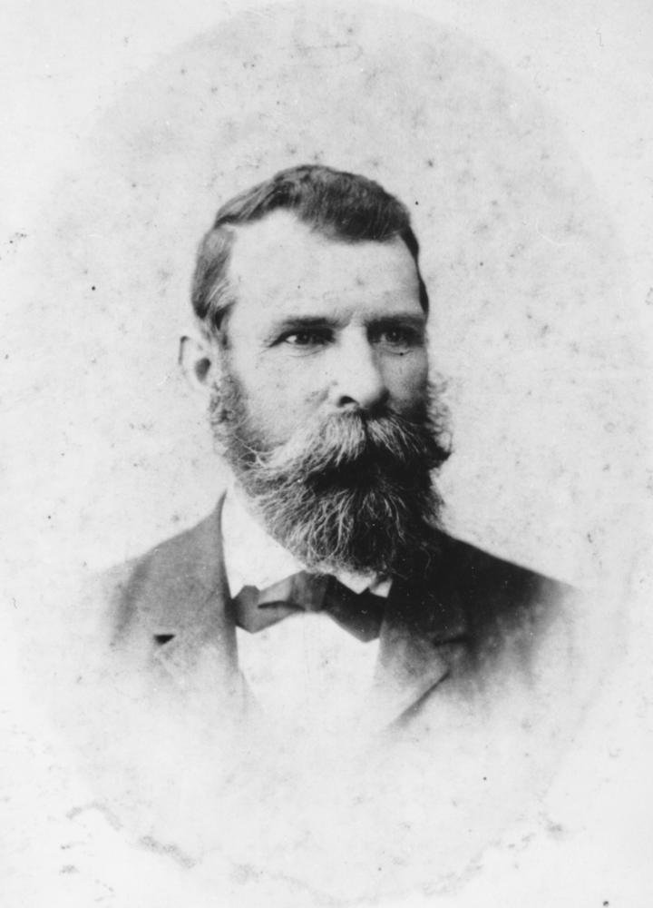 Samuel Grimes, Brisbane, 1889.